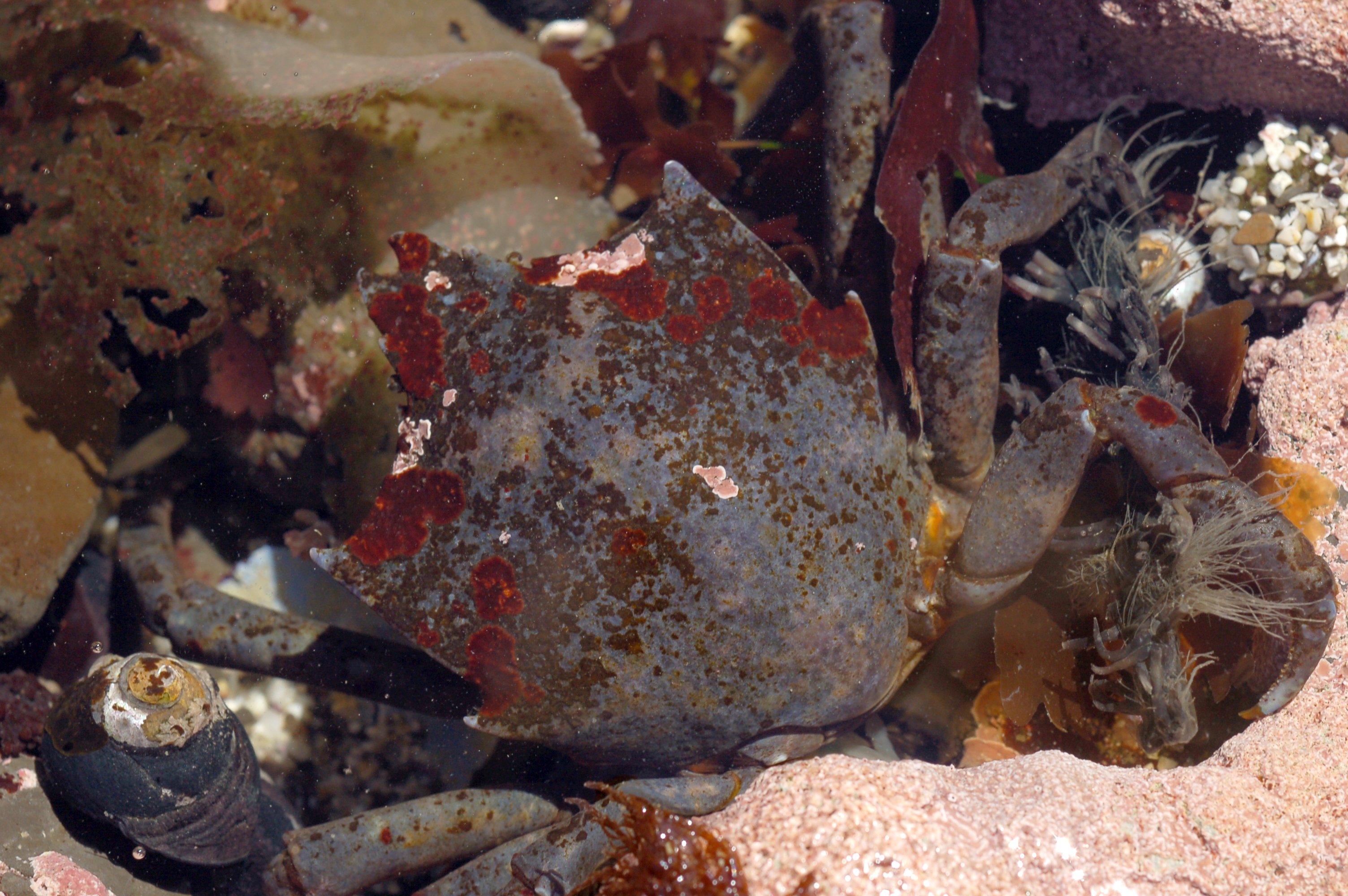 Kelp crab (Pugettia productus Randall, 1840)